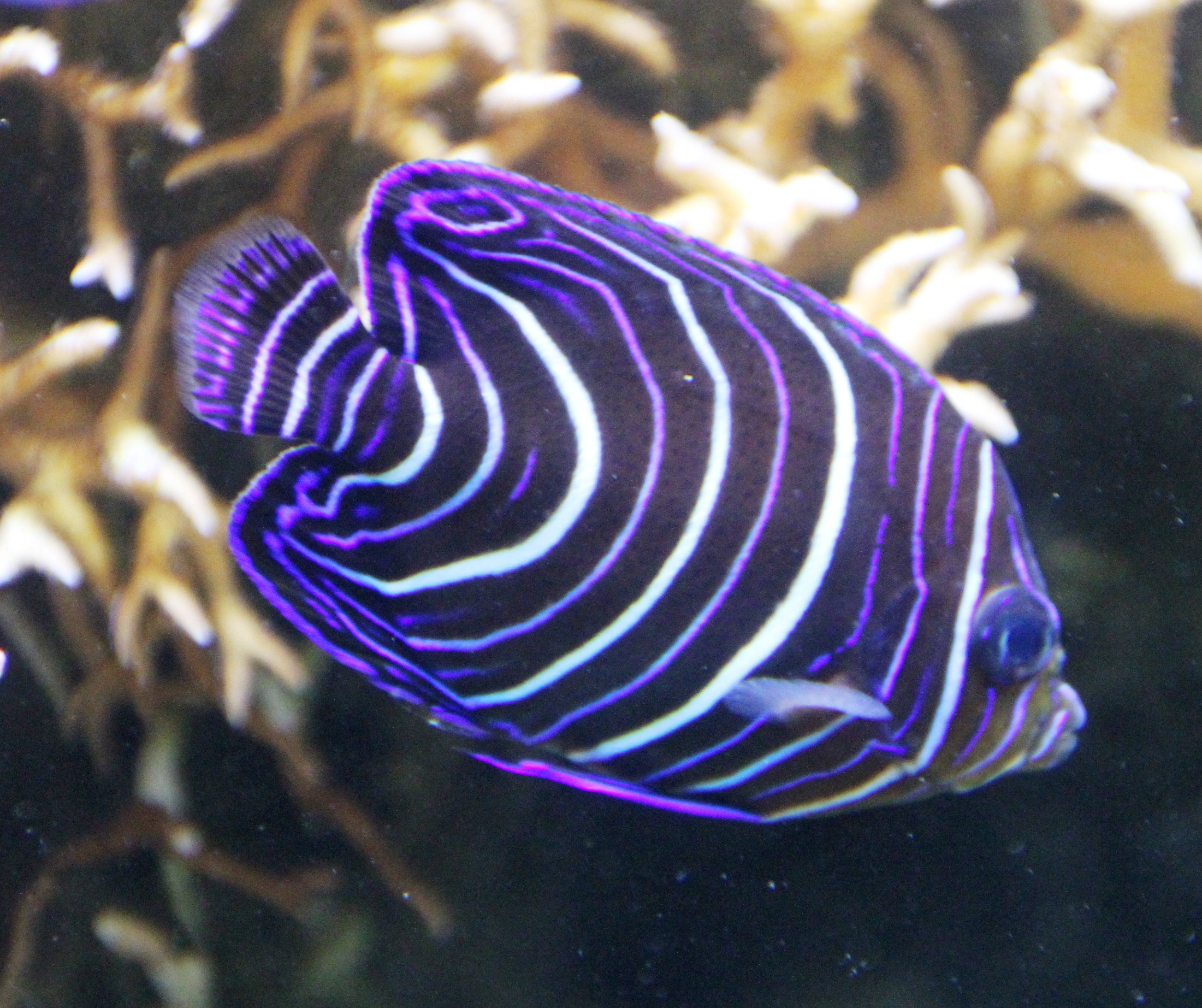 Pomacanthus rhomboides tropical aquarium fish at Universeum Science Park, in Gothenburg, Sweden